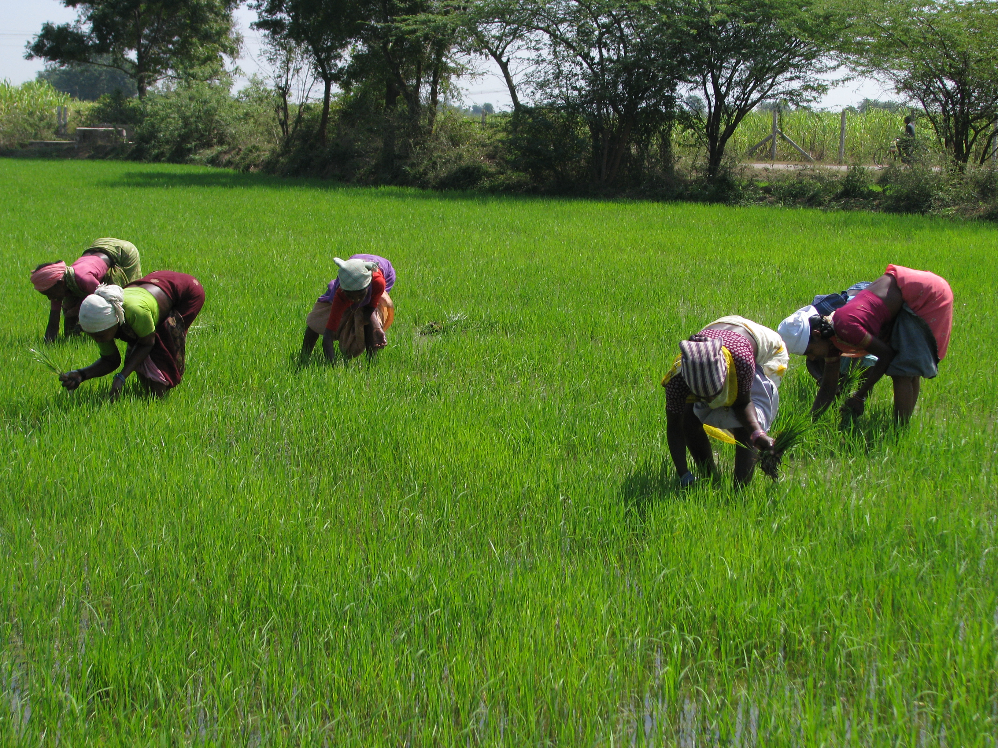 Brightly clad women working hard to plant the spring harvest of rice paddy in Kancheepuram district, Tamil Nadu.